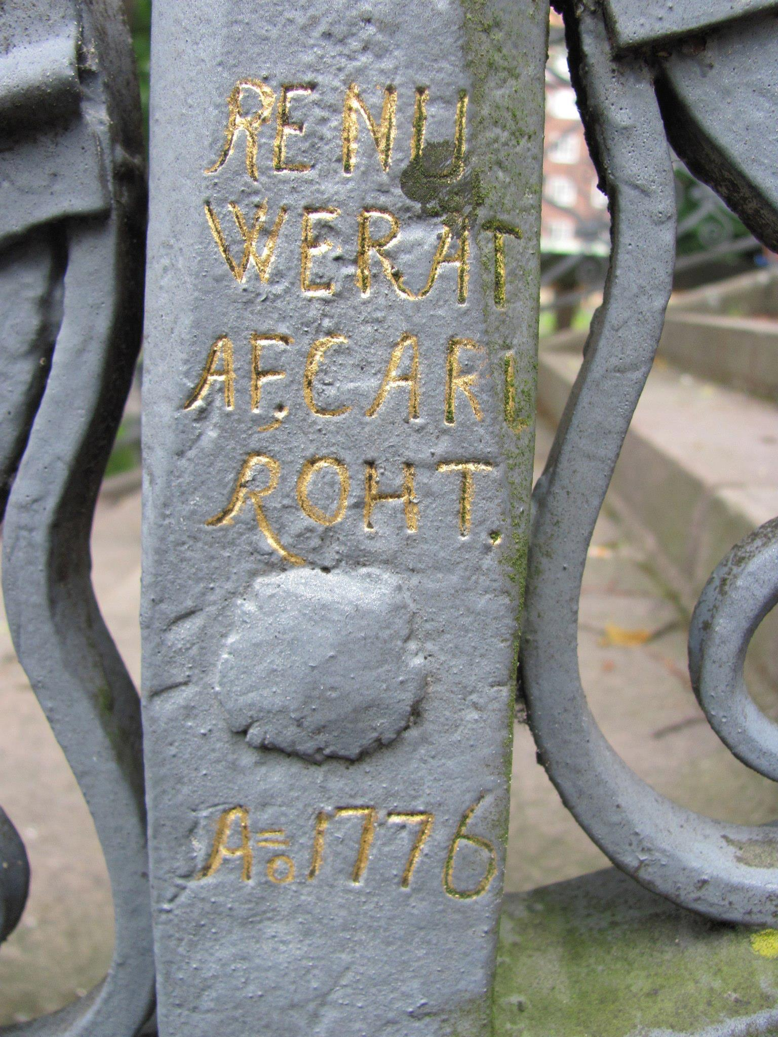 Markings from Charles XII's Stair at Katarina Church in Stockholm, Sweden. Made by Benjamin Roth.